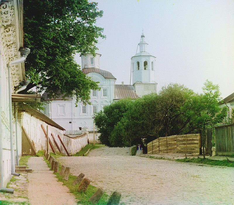 Russia. Smolensk. Avraamiev monastery.